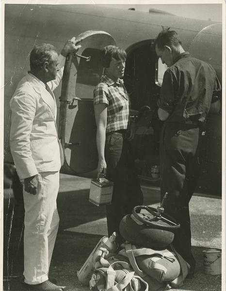 Earhart and Noonan by the Lockheed L10 Electra at Darwin, Australia on 28 June 1937